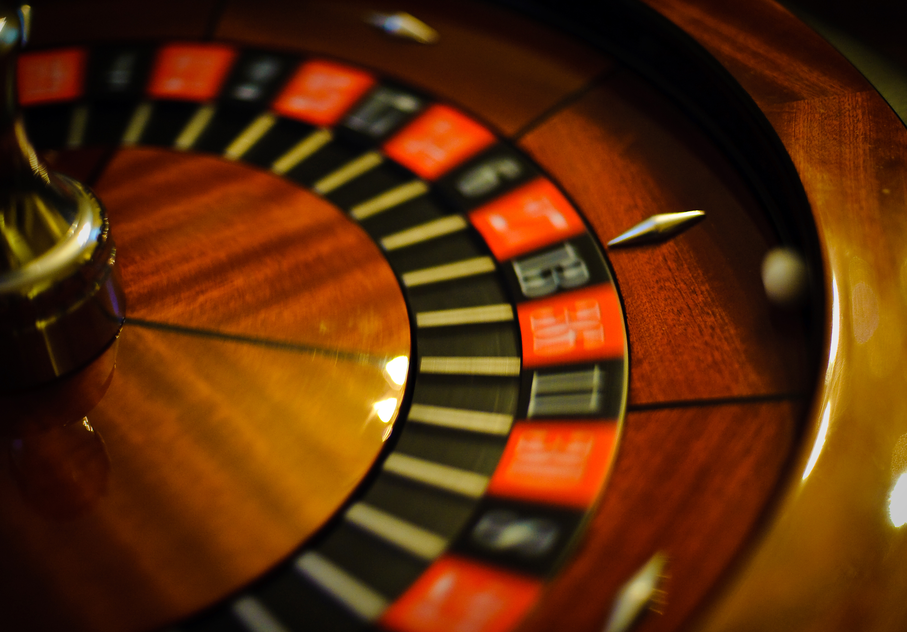 Wheel of fortune. Shot wide open using 50mm/f1.4 @ISO2800